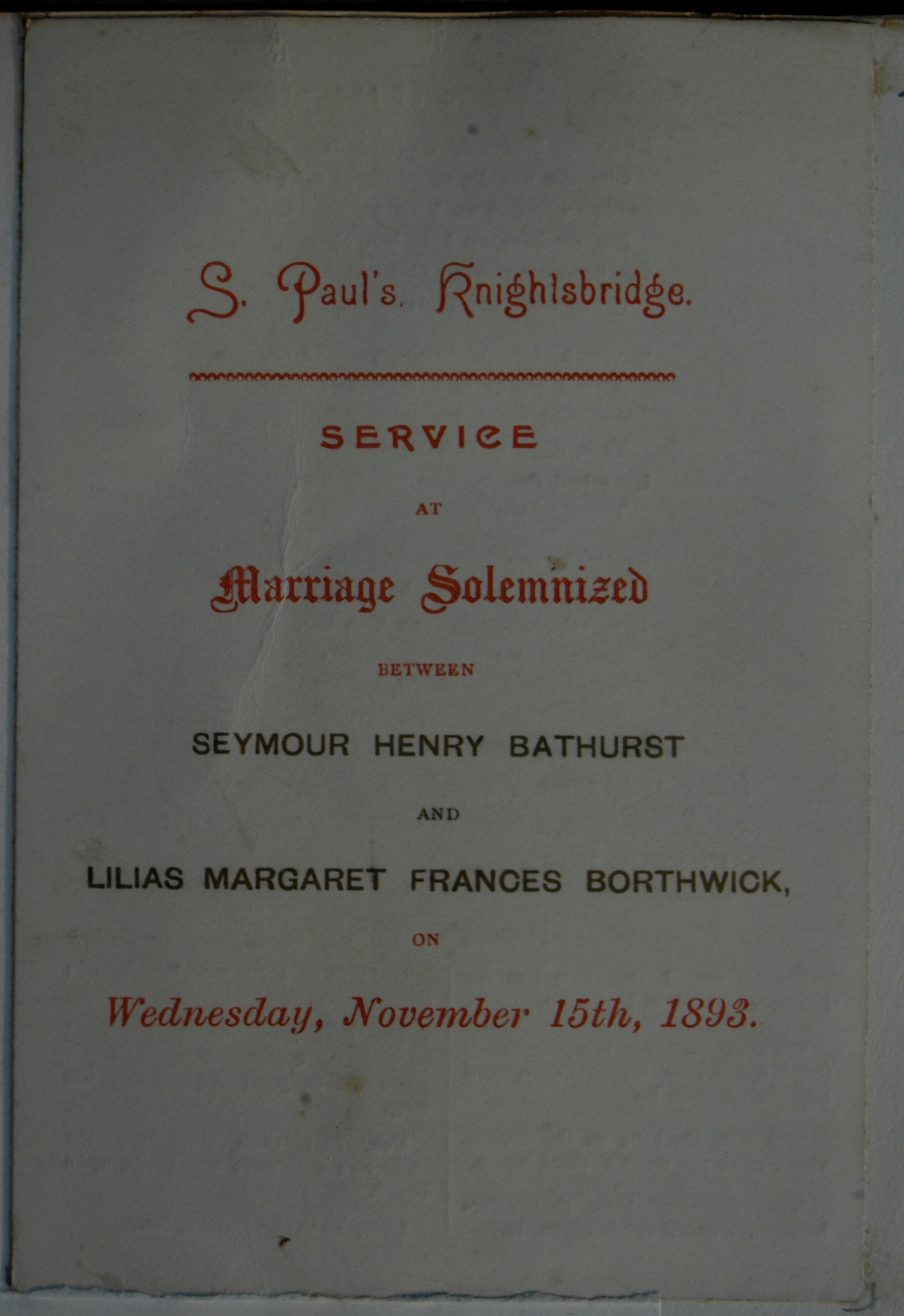 Photo (by me, R. de Salis, Rodolph (talk) 08:52, 23 July 2015 (UTC)) of cover of Marriage Solemization service sheet for S.H. Bathurst and L.M.F. Borthwick 15 November 1893, Knightsbridge.